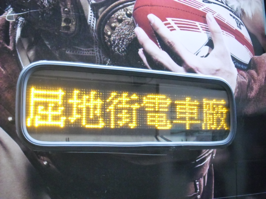 the side LED Display of Hong Kong Tram中文（香港）: 香港電車編號#99的電子顯示側牌，僅顯示目的地